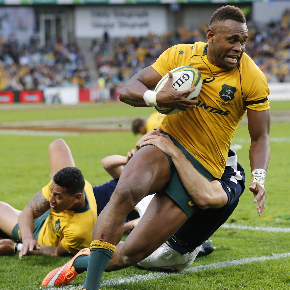 2017.06.17.16.30.42-Eto Nabuli carry The 2017 mid-year rugby union international, 17 June 2017, Australia vs Scotland at Allianz Stadium, Sydney